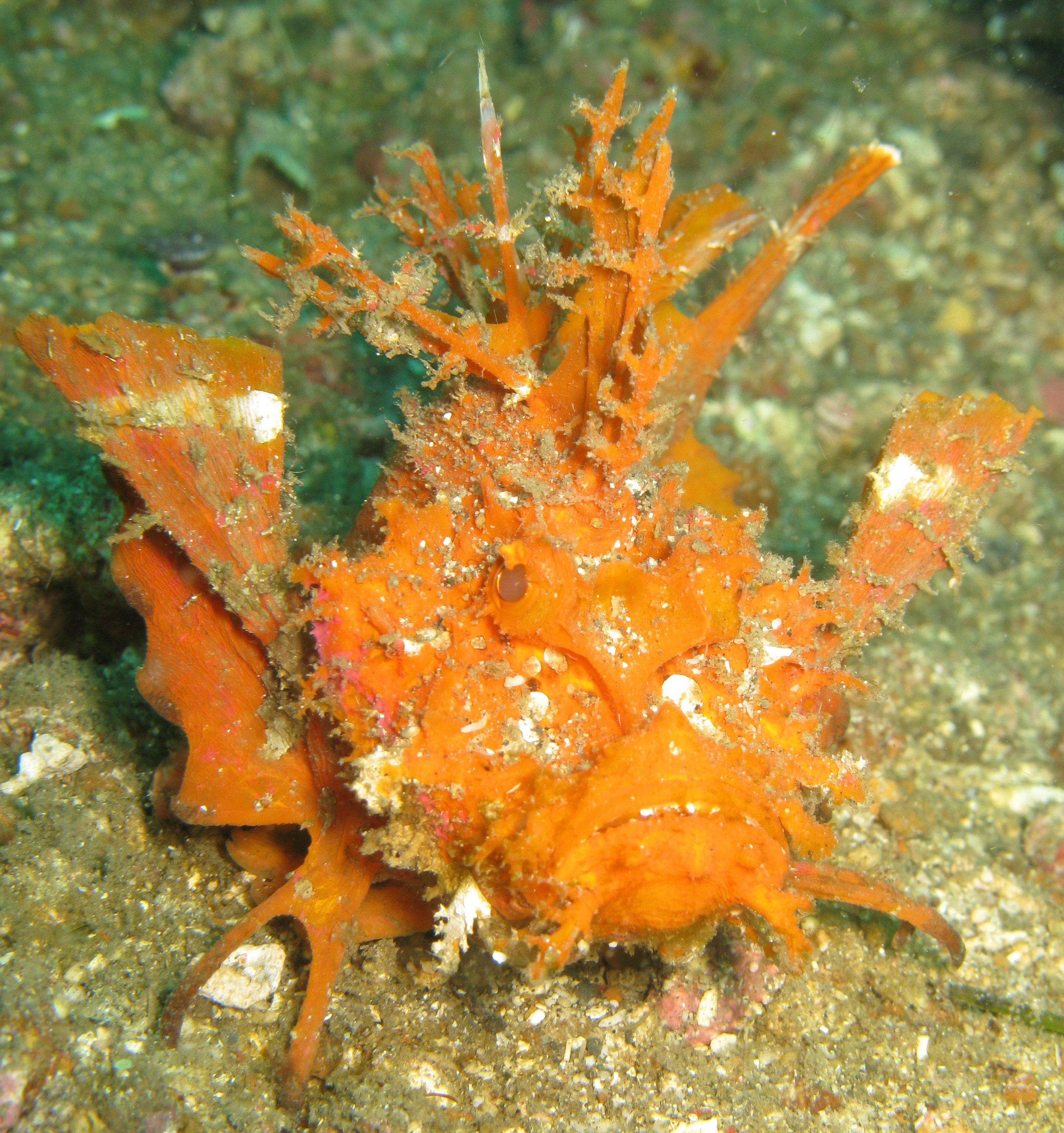 Scorpionfish at Lembeh & Bunaken